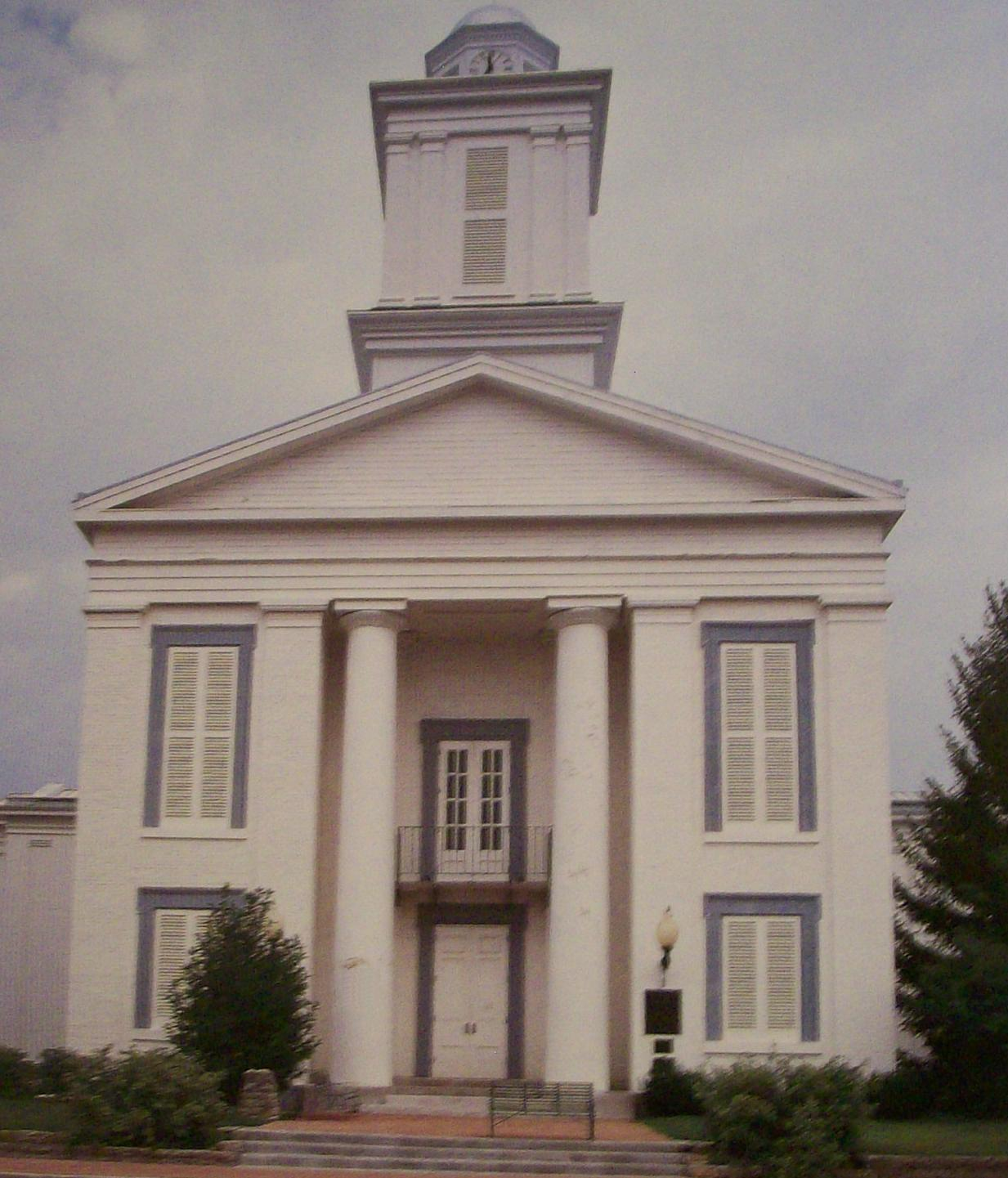 Brown County, Ohio Courthouse in Georgetown, Ohio